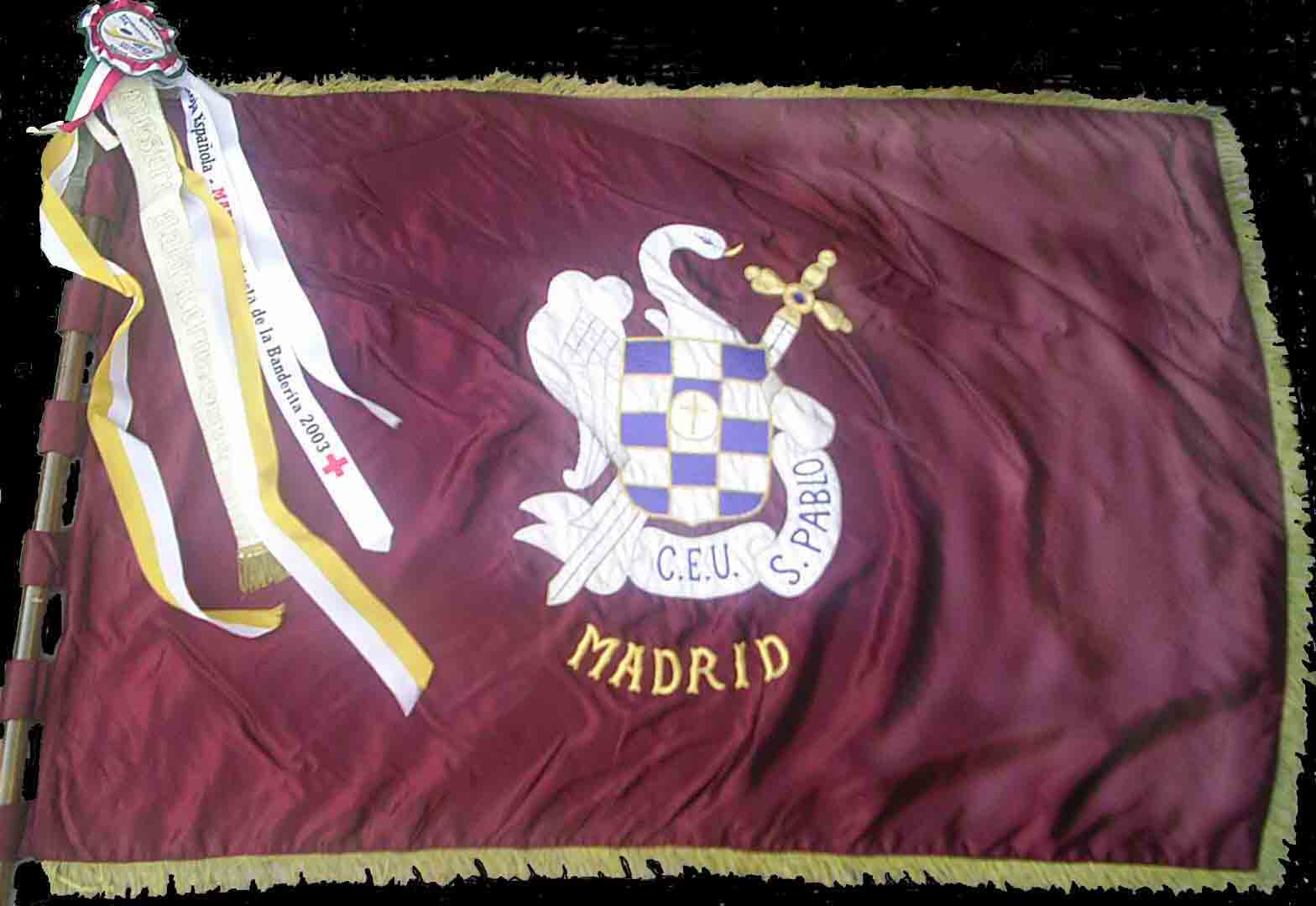 El revés de la bandera de la Tuna San Pablo CEU de Madrid